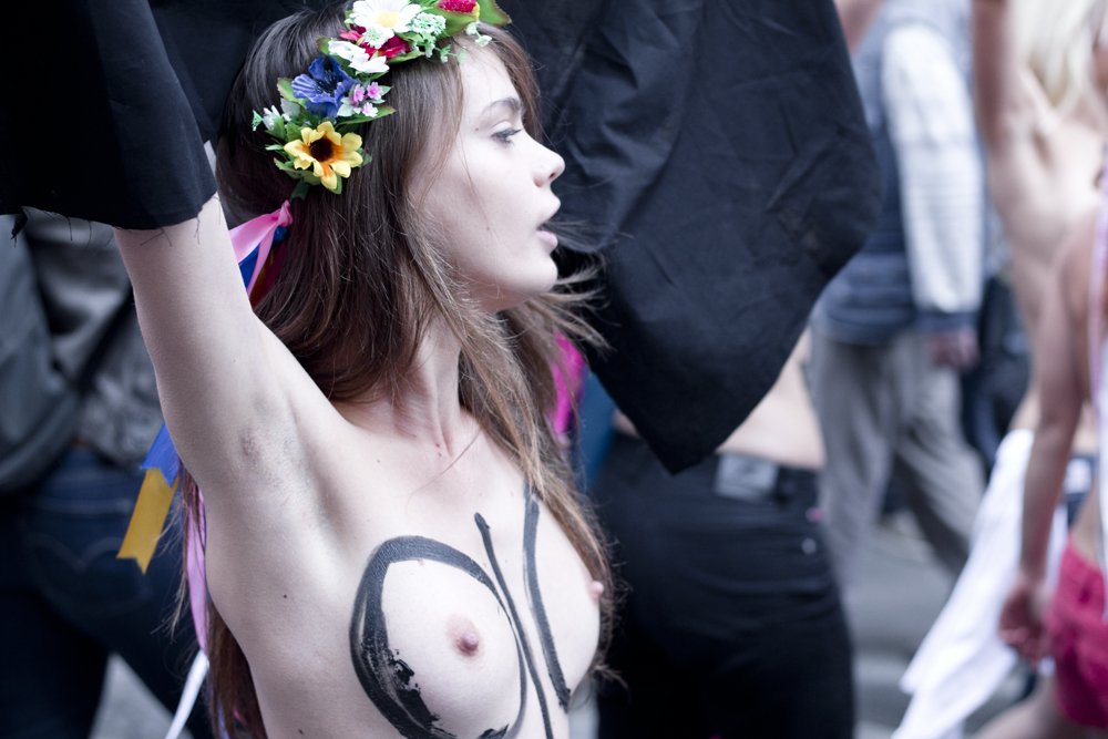 Femen in Paris - 18th sept 2012